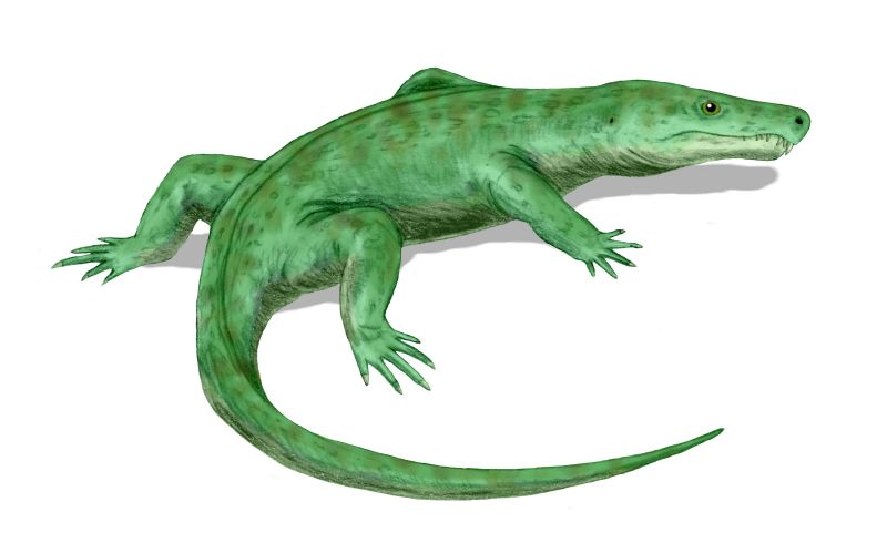 Limnoscelis paludis, a diadectomorph from the Early Permian of North America, pencil drawing